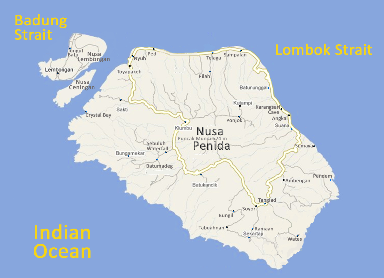 Map of Nusa Penida, Nusa Penida.